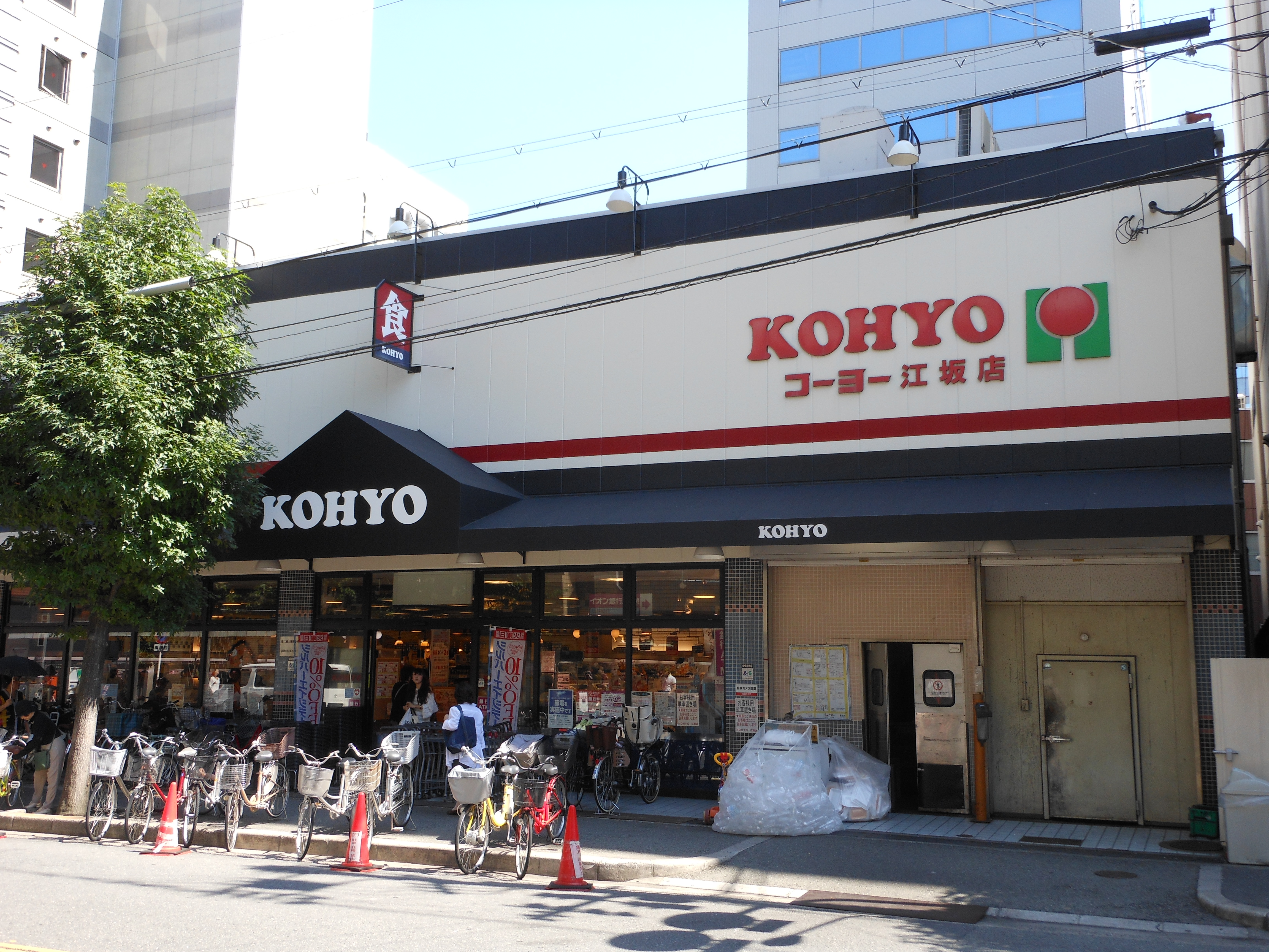 KOHYO Esaka, 1-30 Enokicho Suita-City Osaka Japan.